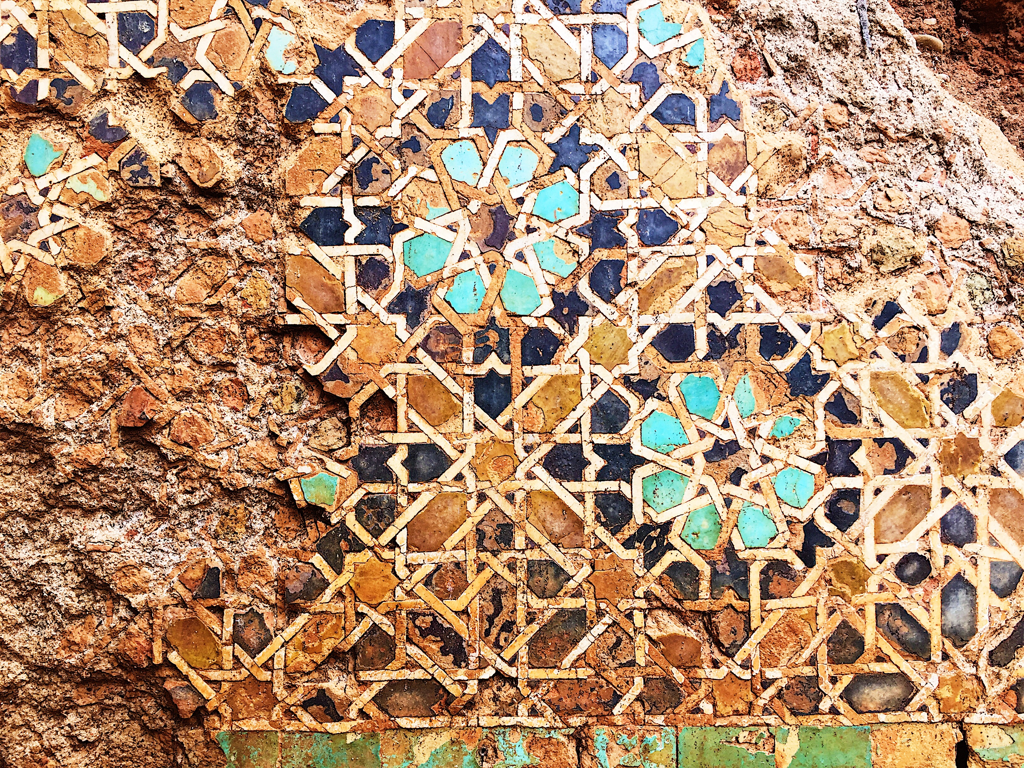 Zellij at the Marinid Mosque of Chella, 2017